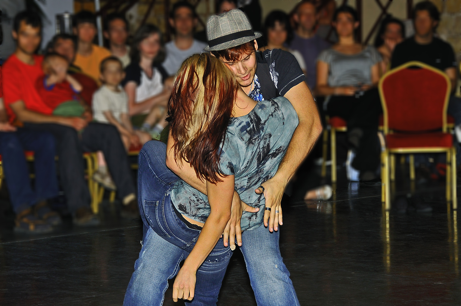 Maxence Martin and Tatiana Mollman performing a Jack'n'Jill in the French Open of West Coast Swing Template:Portail Catégorie:Danse